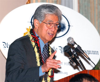 Washington, D.C. - February 28, 2005 -- United States Senator Daniel Akaka (Democrat of Hawaii) speaks to the 104 student delegates to the United States Senate Youth Program in Washington, D.C. on February 28, 2005. The United States Senate Youth Program has been privately and completely funded by the William Randolph Hearst Foundation for 43 years.